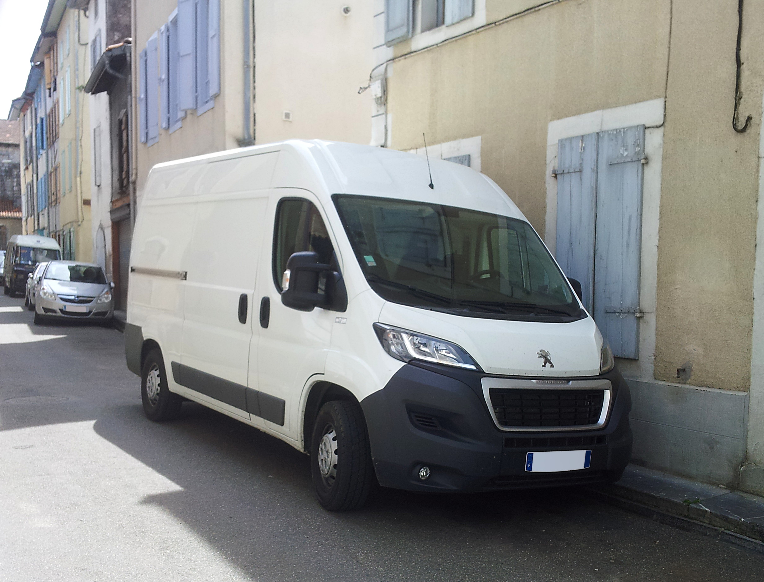 2014 Peugeot Boxer L2H2: 5.41 m (213.0 in) long x 2.52 m (99.2 in) high.